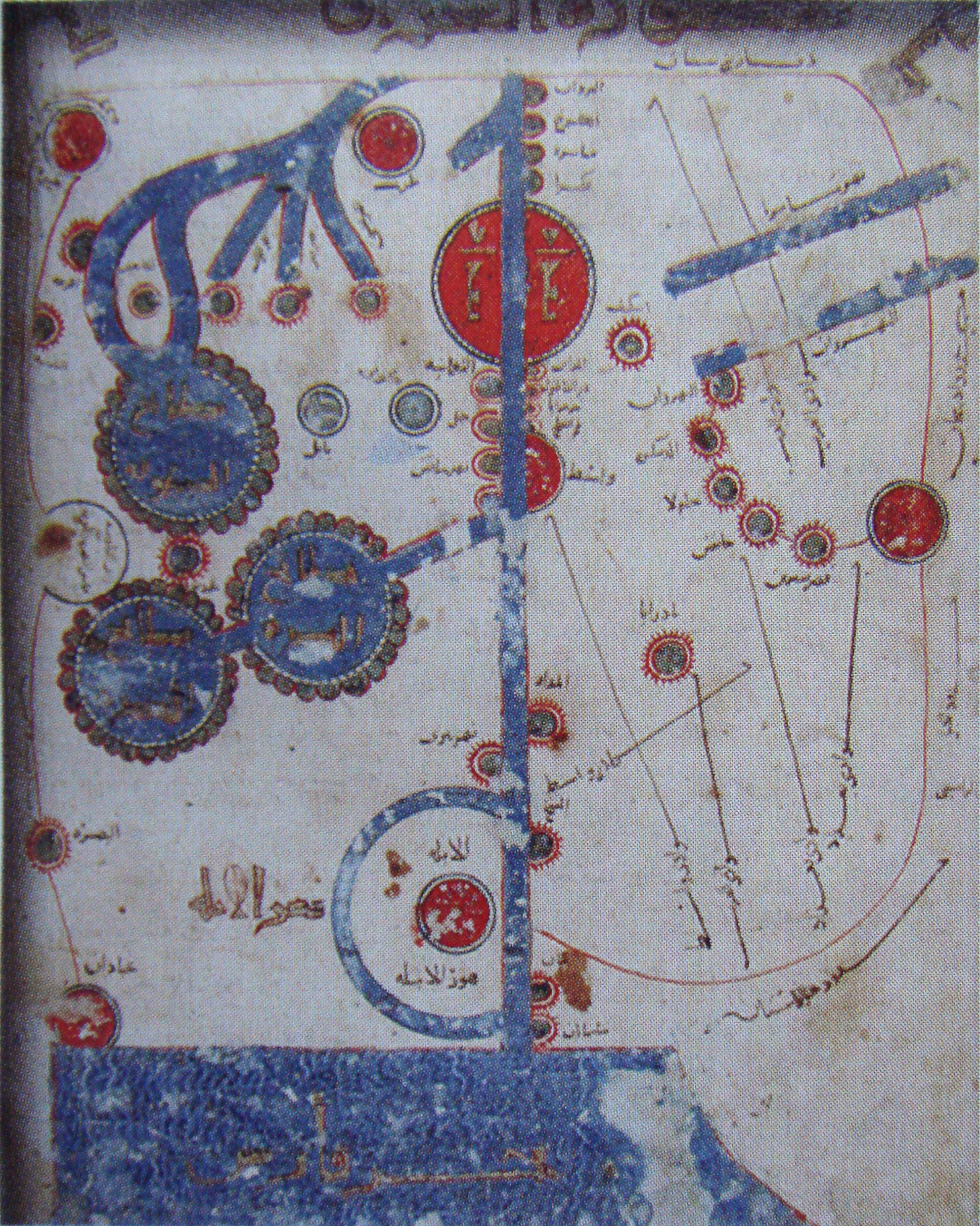 Al-Istakhri map of Tigris and Euphrates valley from Bagdad to Persian Gulf's coast.